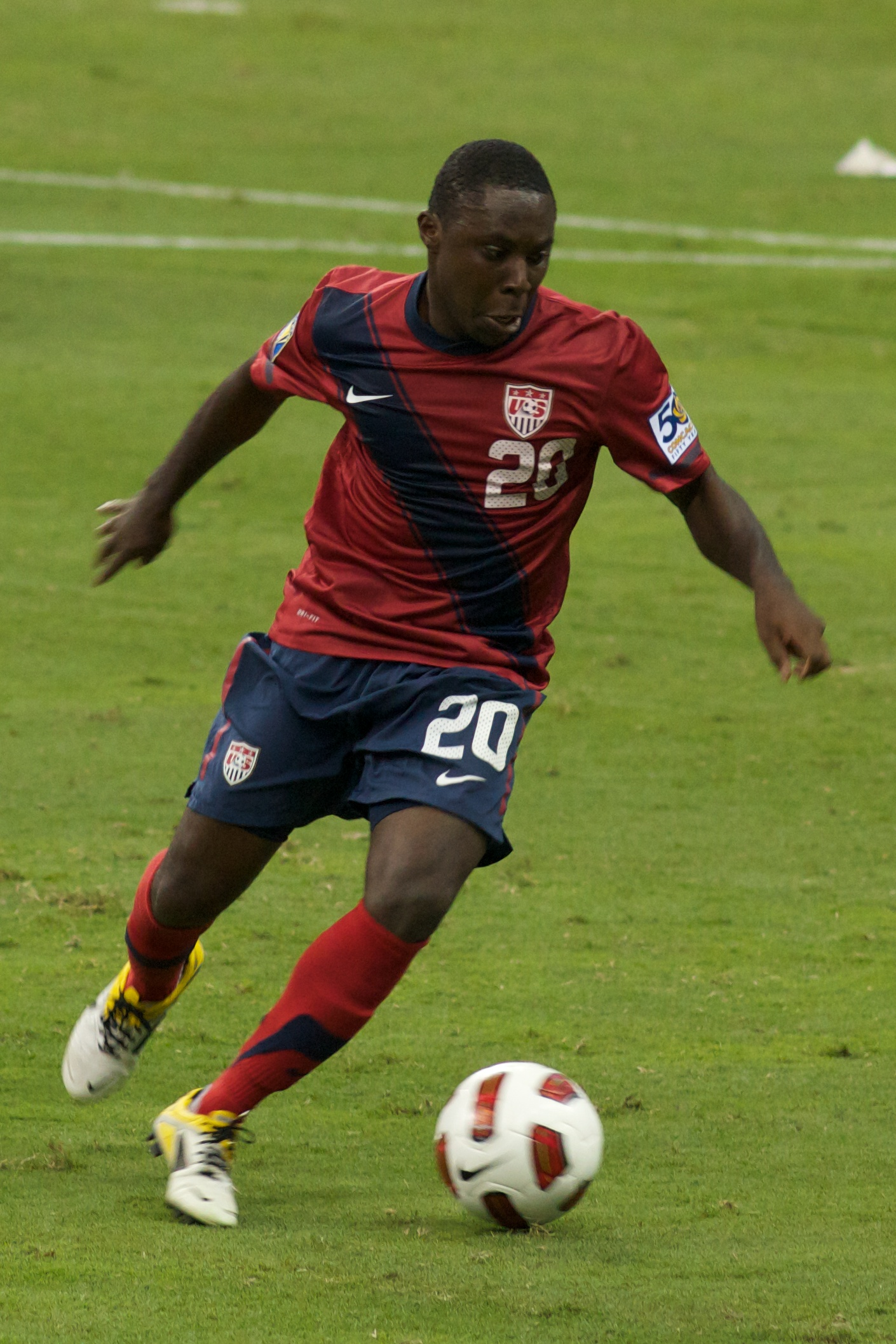 Freddy Adu representing the US soccer team at the 2011 Gold Cup semi-final match in Houston Texas on June 22, 2011.